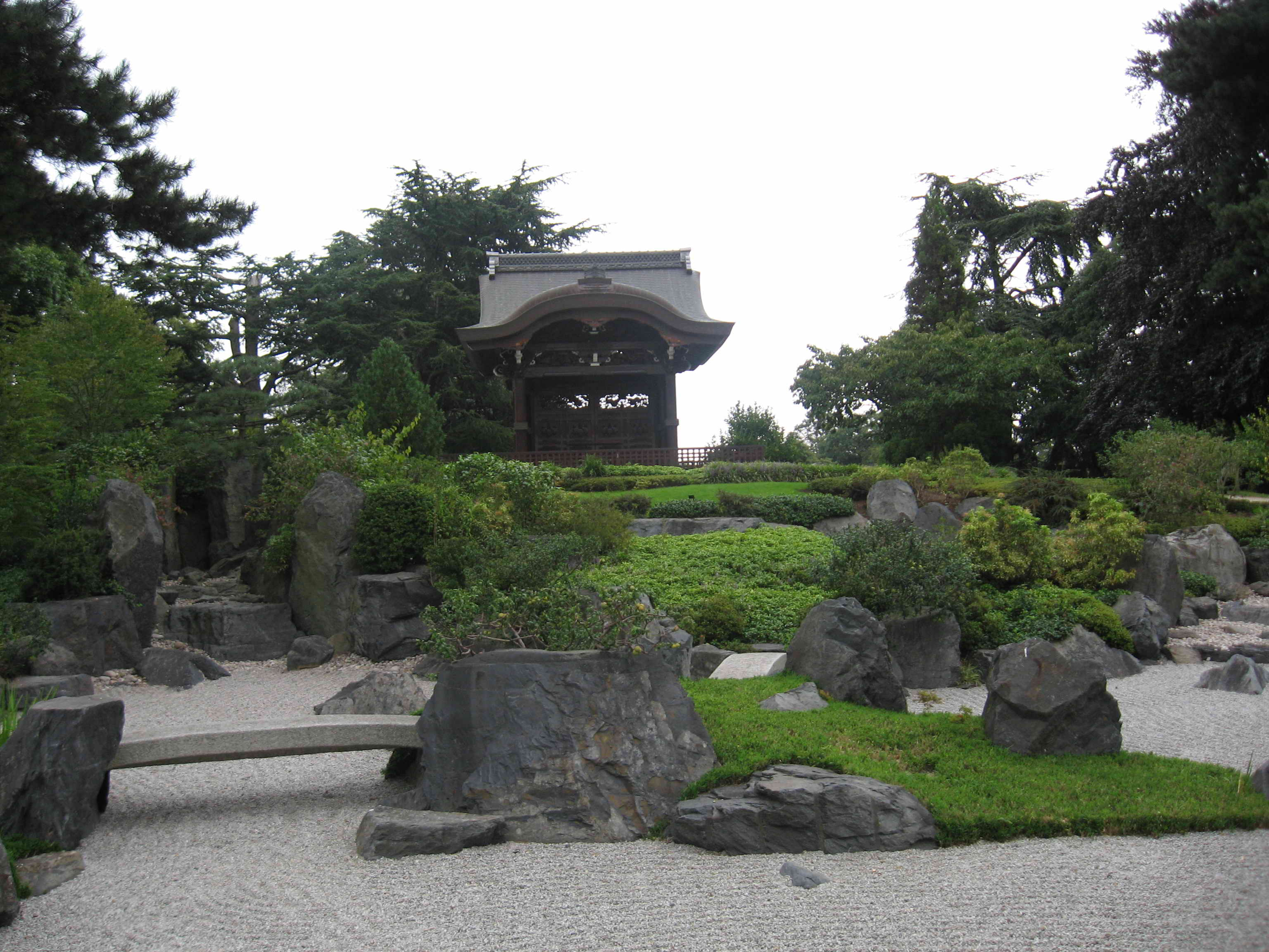 Kew Japan garden